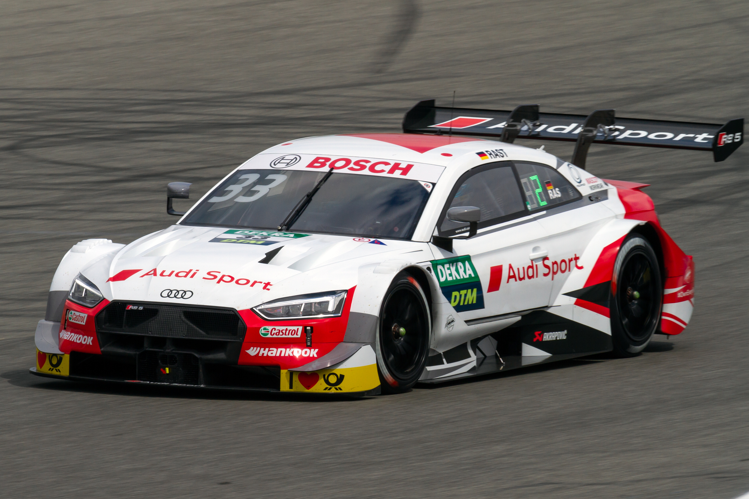 2019 DTM Hockenheimring (May): Audi RS5 Turbo DTM of René Rast